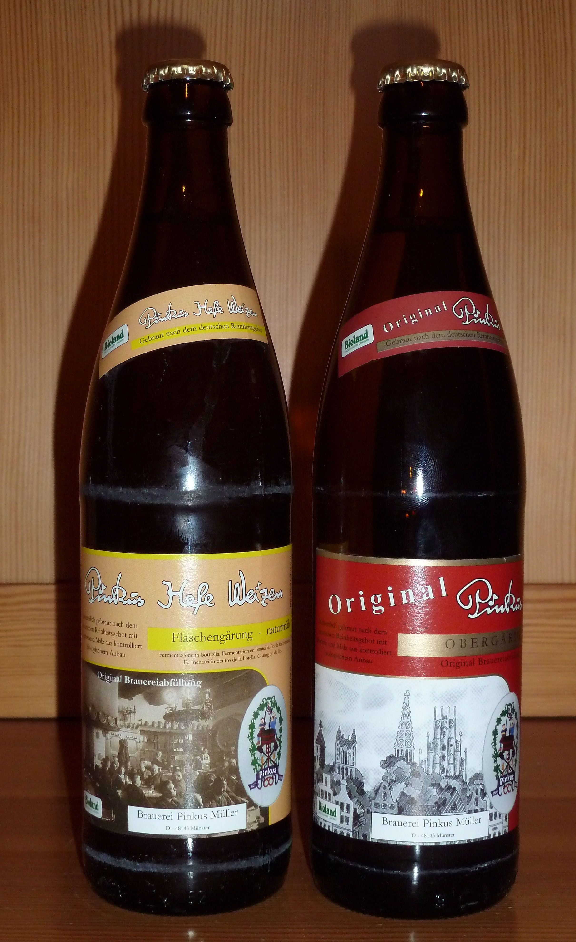 Pinkus Müller Hefe Weizen and Original Alt